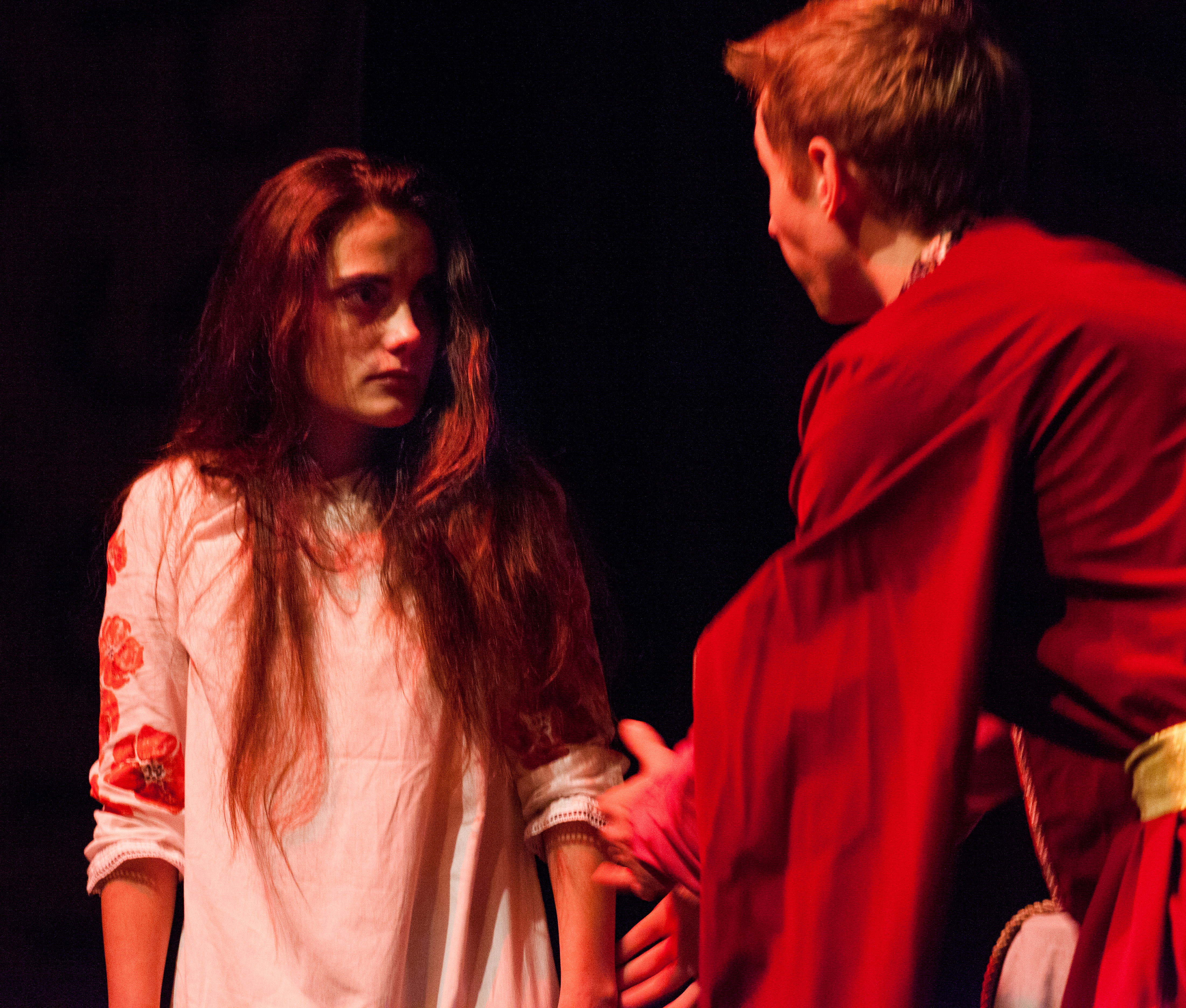 Photo from the performance "Boyarynya", based on poem of the same name by Lesya Ukrainka. Troupe "Chesnyi theater", director - Kateryna Chepura, Kyiv.